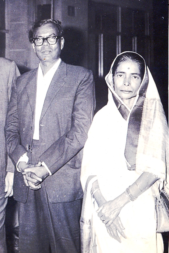 Photographs of Gopinath with wife in 60s and other photographs in USA